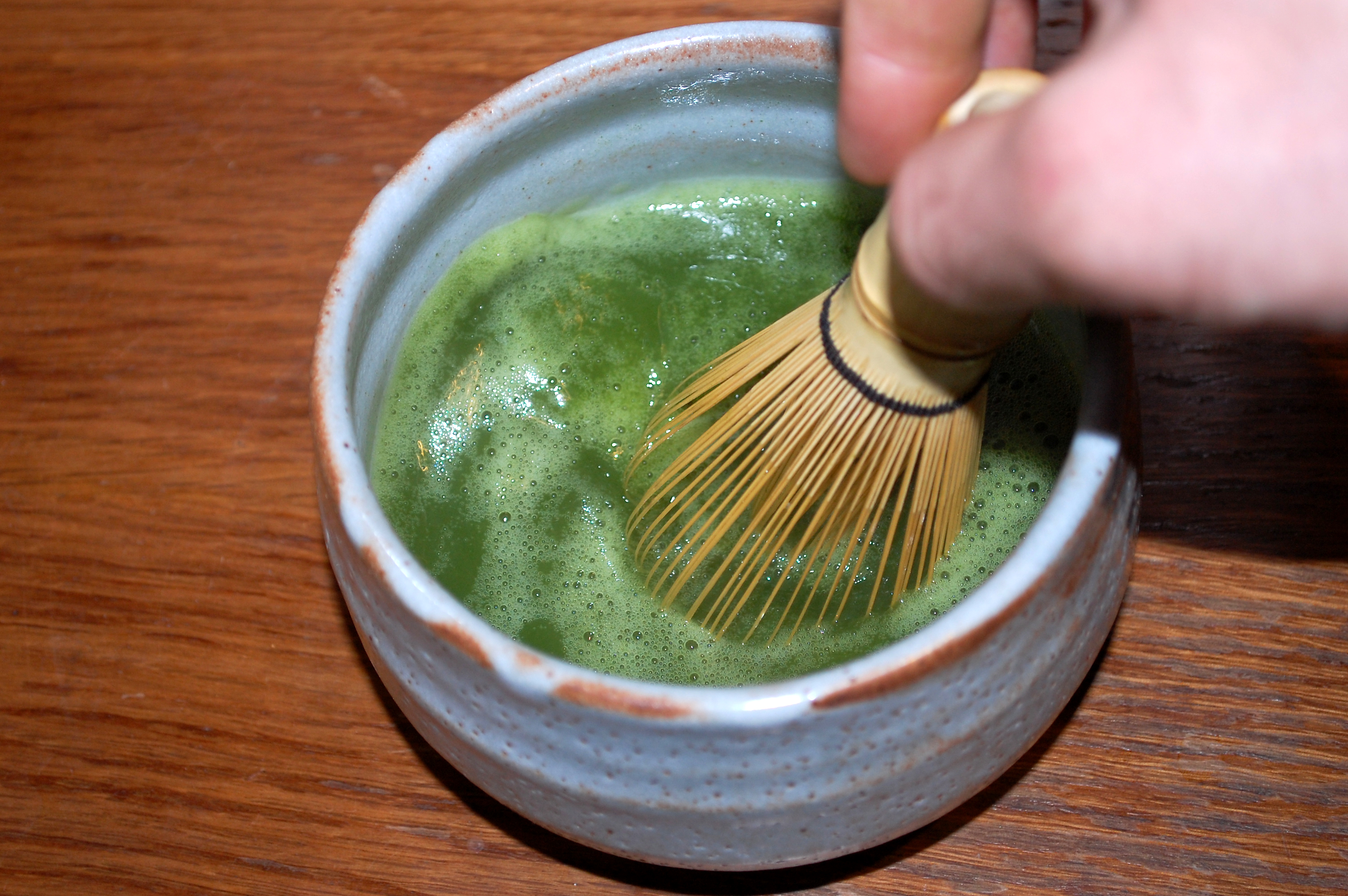 Using a bamboo whisk to make froth for macca (matcha) tea.